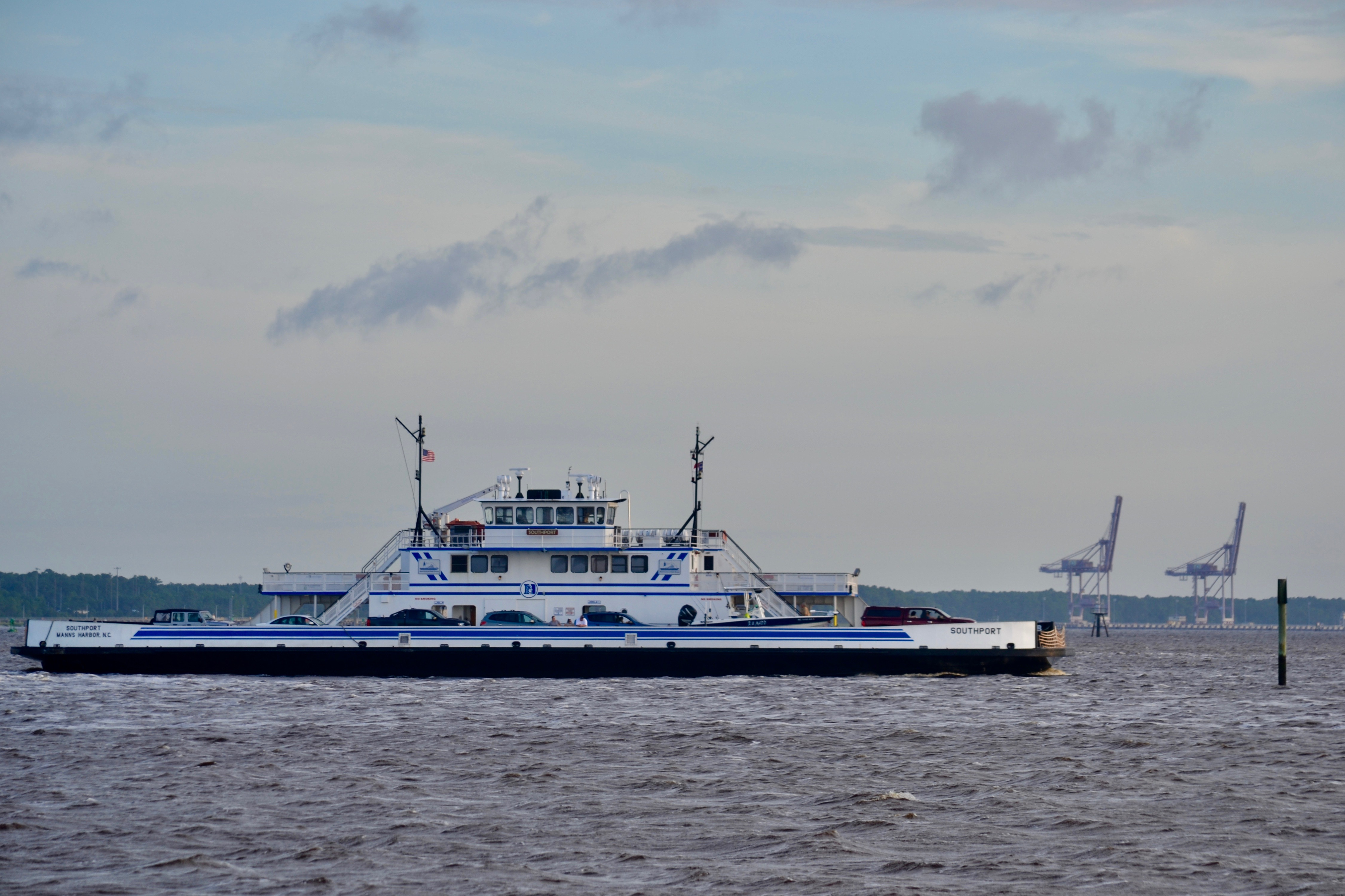 Fort Fisher Ferry with MOTSU behind